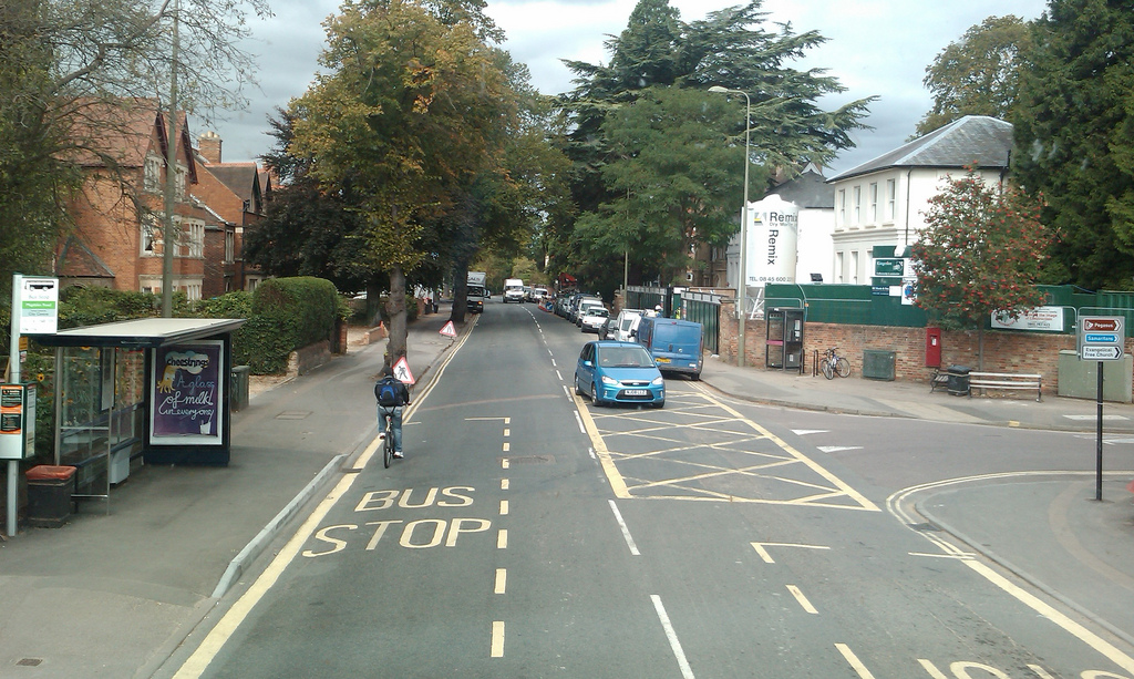 Part of Iffley Road, Oxford, England